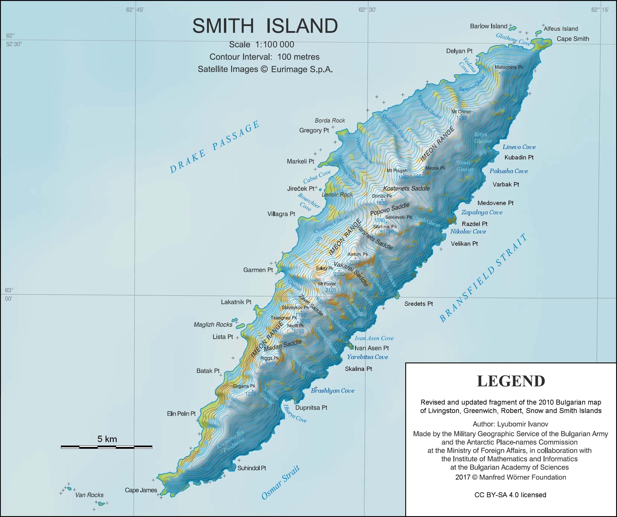 L.L. Ivanov. Antarctica: Smith Island. Scale 1:100000 topographic map. Manfred Wörner Foundation, 2017. Revised and updated version of the first topographic map of Smith Island, fragment of the author’s 2010 map of Livingston Island and Greenwich, Robert, Snow and Smith Islands.